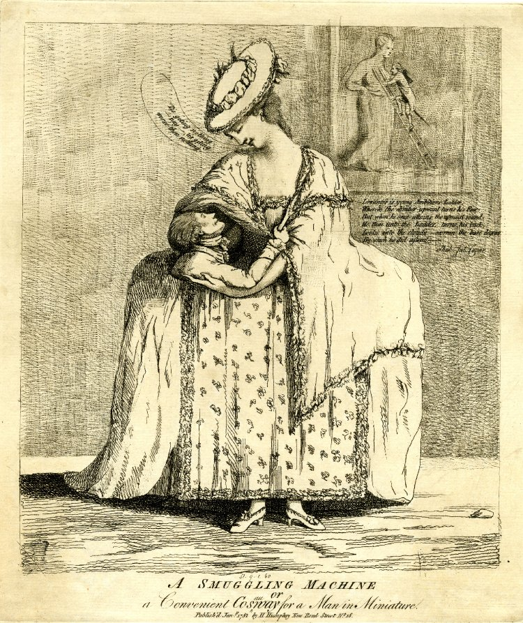 A portrait of Richard Cosway, R.A., standing under the wide hooped petticoat of a tall lady, his wife, Maria, who puts her arms round him. His head and shoulders emerge from the petticoat slightly below the level of her waist; his face is in profile looking upwards. His right hand clutches her cloak, his left, is round her waist. She wears a flat ribbon-trimmed hat, and looks down at him saying, "Tis geting nothing - nay - tisgeting worse than nothing." In the background, on; the wall (right), is a picture of a little man wearing a bag-wig and sword, climbing up a ladder which rests on the breast of a woman. Beneath it is engraved: "Lowliness is Young Ambitions Ladder, Whereto the climber upward turns his Face But when he once attains the upmost round He then unto the Ladder turns his back, Looks unto the clouds - scornin [sic] the base degrees By which he did assend. Shak. Jul. Caesar." 1 January 1782 Etching with use of the rocker